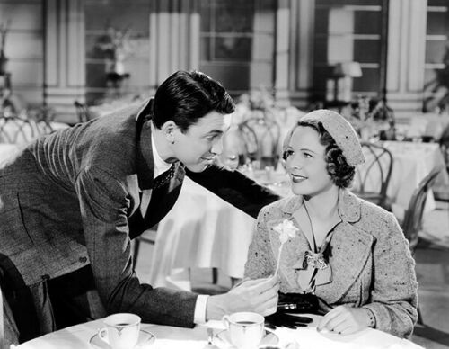 James Stewart and Wendy Barrie in American drama-action film Speed (1936). No copyright notice.